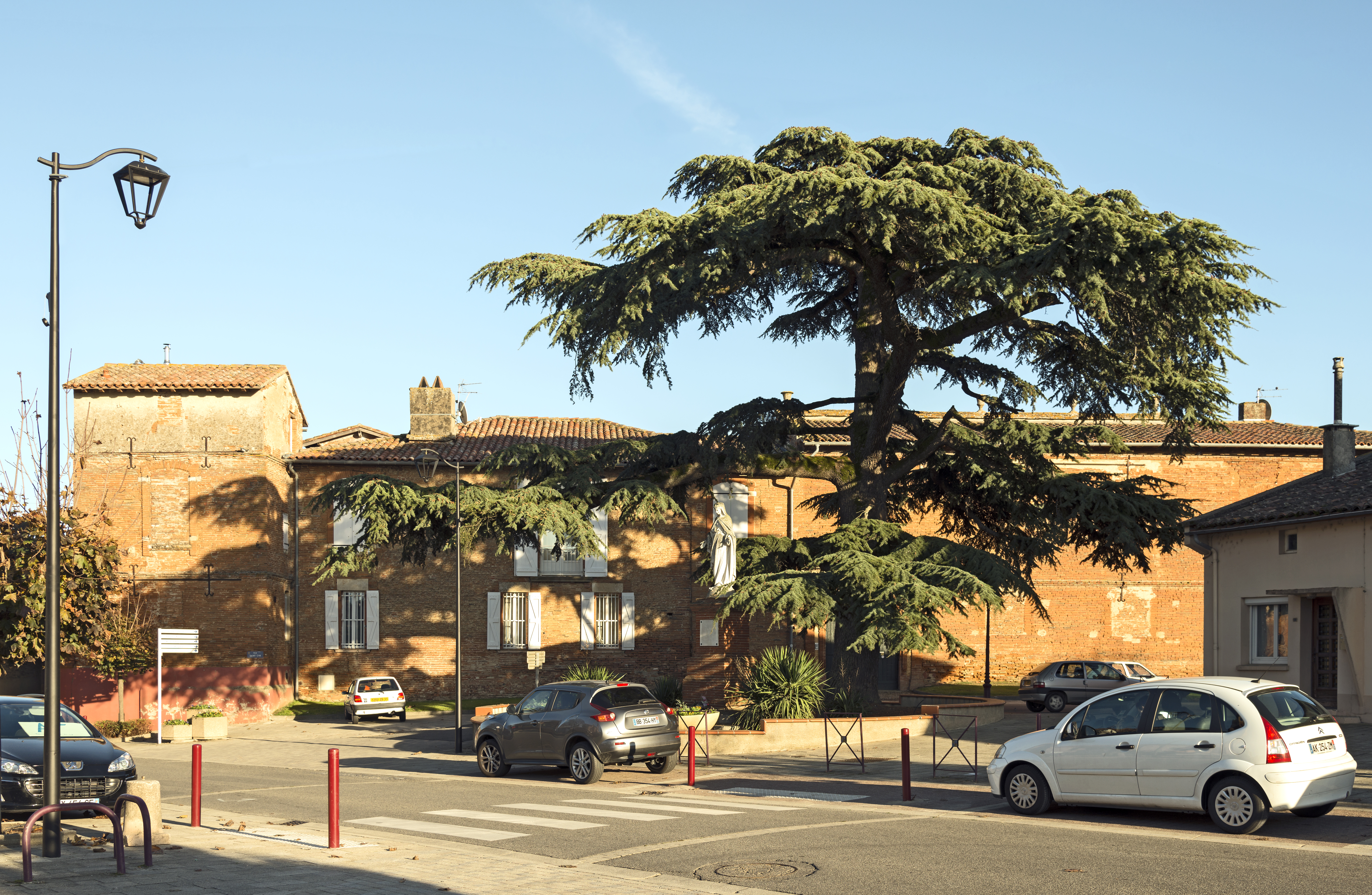 Castel of Aussonne, Haute-Garonne France